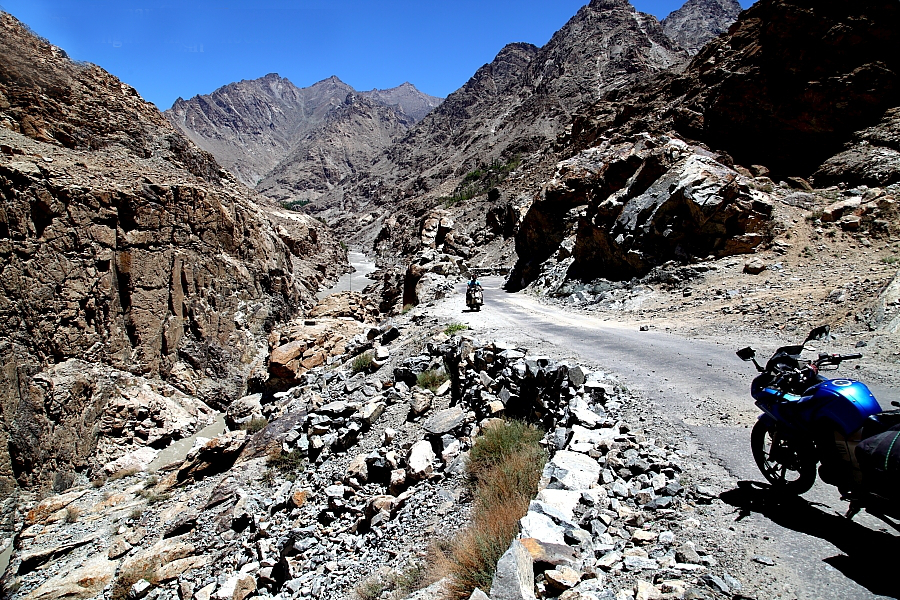 Road inside Batalik sector